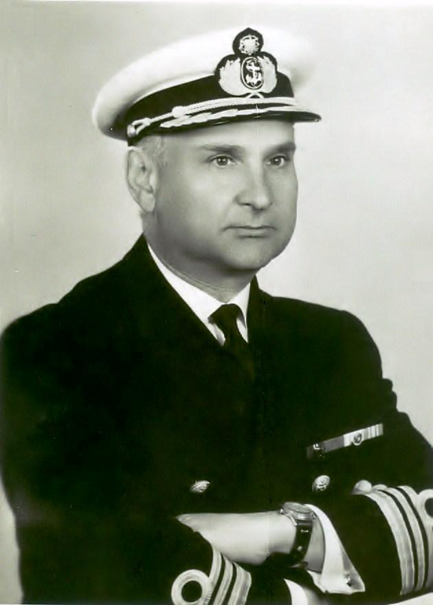 Maestro Capitão-de-Fragata Marcos Romão dos Reis Júnior